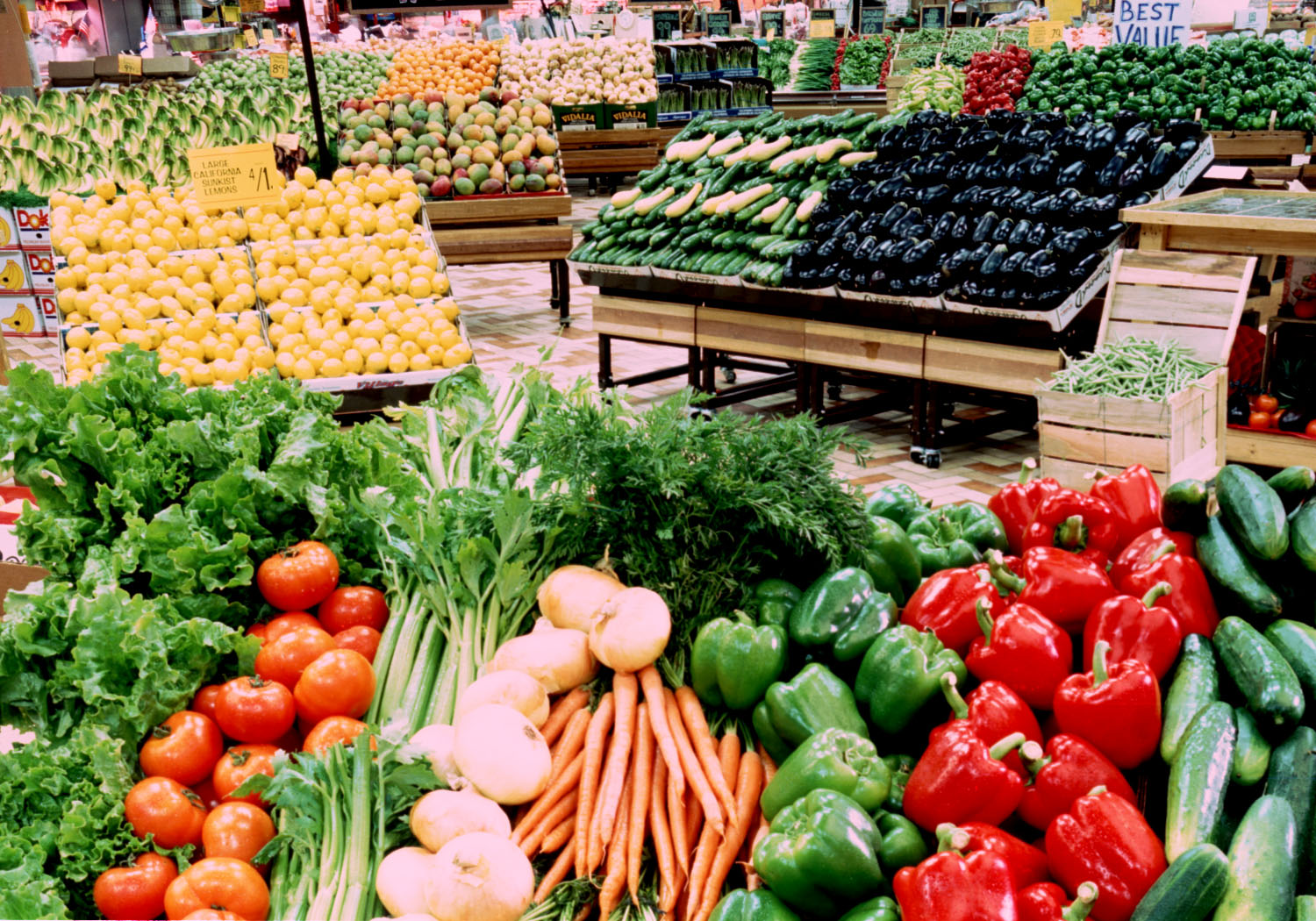 malakwal